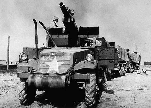 A line-up of T19 HMCs of the 9th Field Artillery at Newport News, VA, 20 October 1942 during World War II. These units were part of Task Force A, enroute to North Africa.